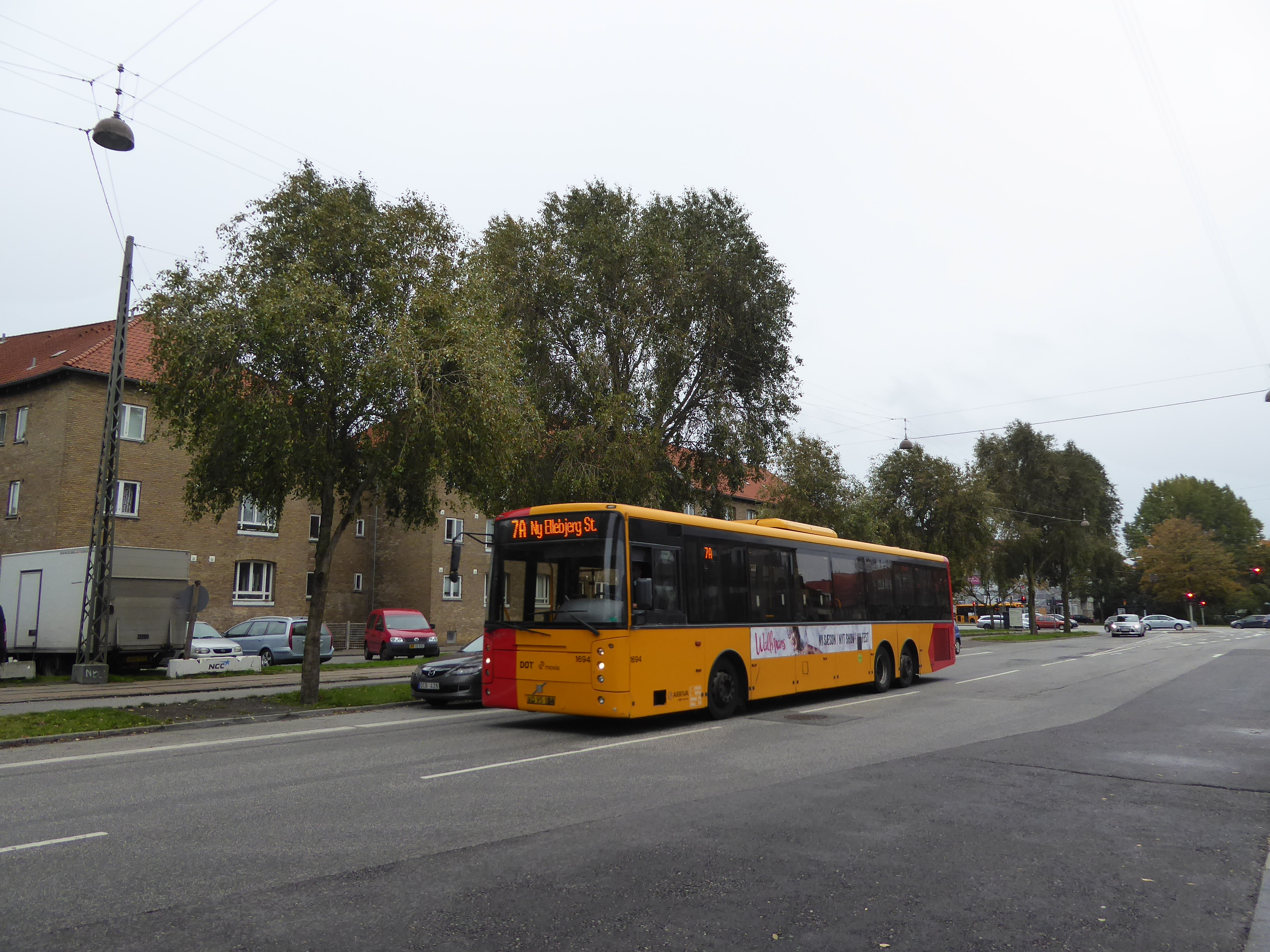 Movia bus line 7A on Sjælør Boulevard in Kongens Enghave in Copenhagen. It was the first day of the line.